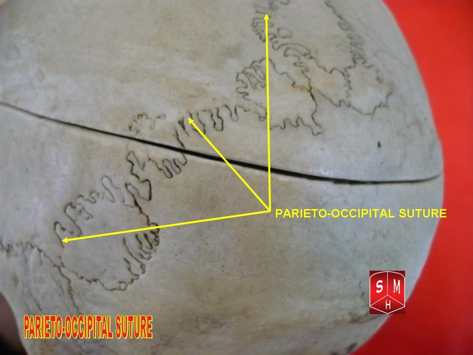 Anatomical preparation